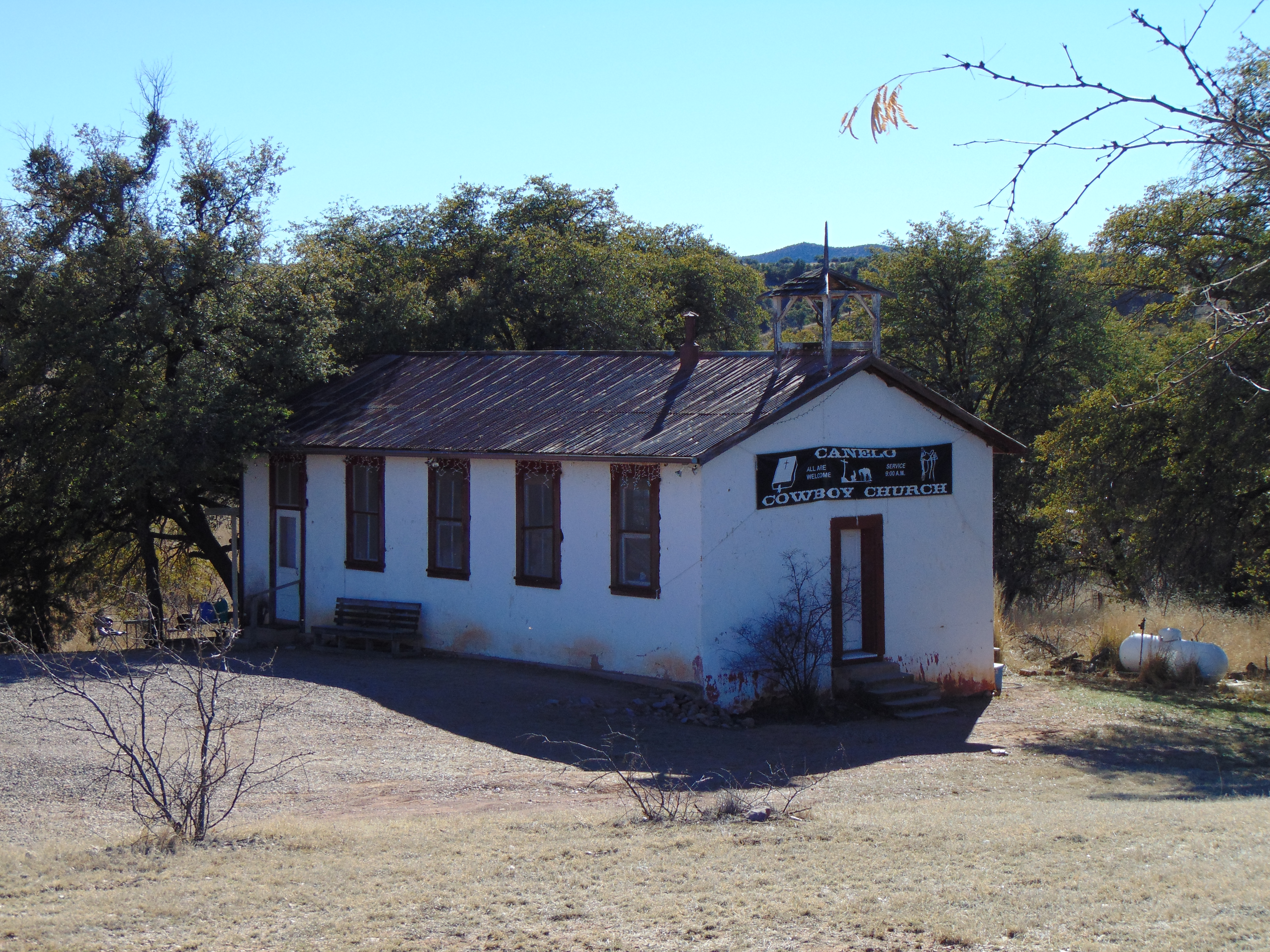 The one-room Canelo School building in Canelo Arizona. It was built in 1912 and is now occupied by the Canelo Cowboy Church.